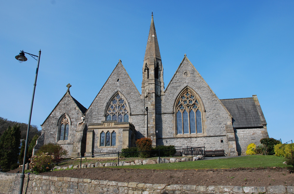 Parish Church of Saint Paul, Grange over Sands